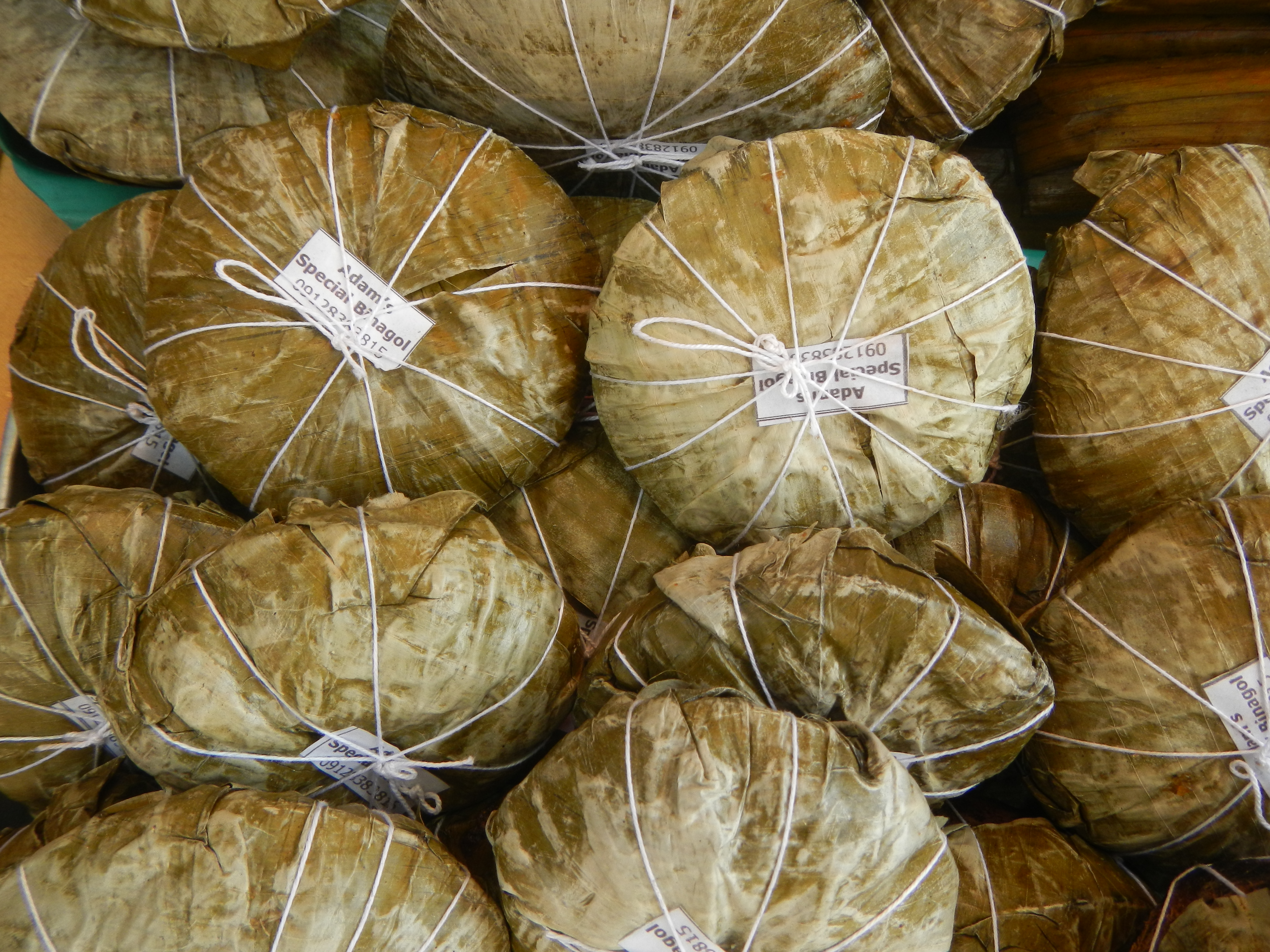 Binagol is made of a talyan root crushed or grated gabi similar to taro mixed with coconut milk, condensed milk, sugar and cooked like a sticky cake, steam in coconut shell and wrapped tied in banana leaves a popular sweet delicacy originating from Leyte, Visayas.